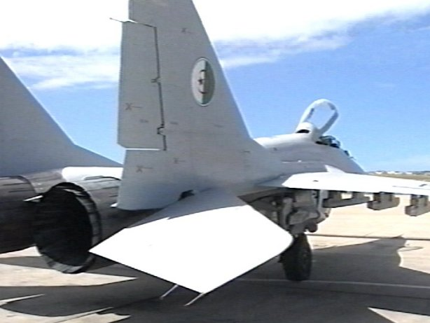 MiG-29 Algerian Air Force Military Aircraft. Source:Own Work Author:Cohen Mashaoul (Octobre 2005) mohamed 007 + nounou general d'etat major en 2020 acheraf sergent jusqu'a 200000087455